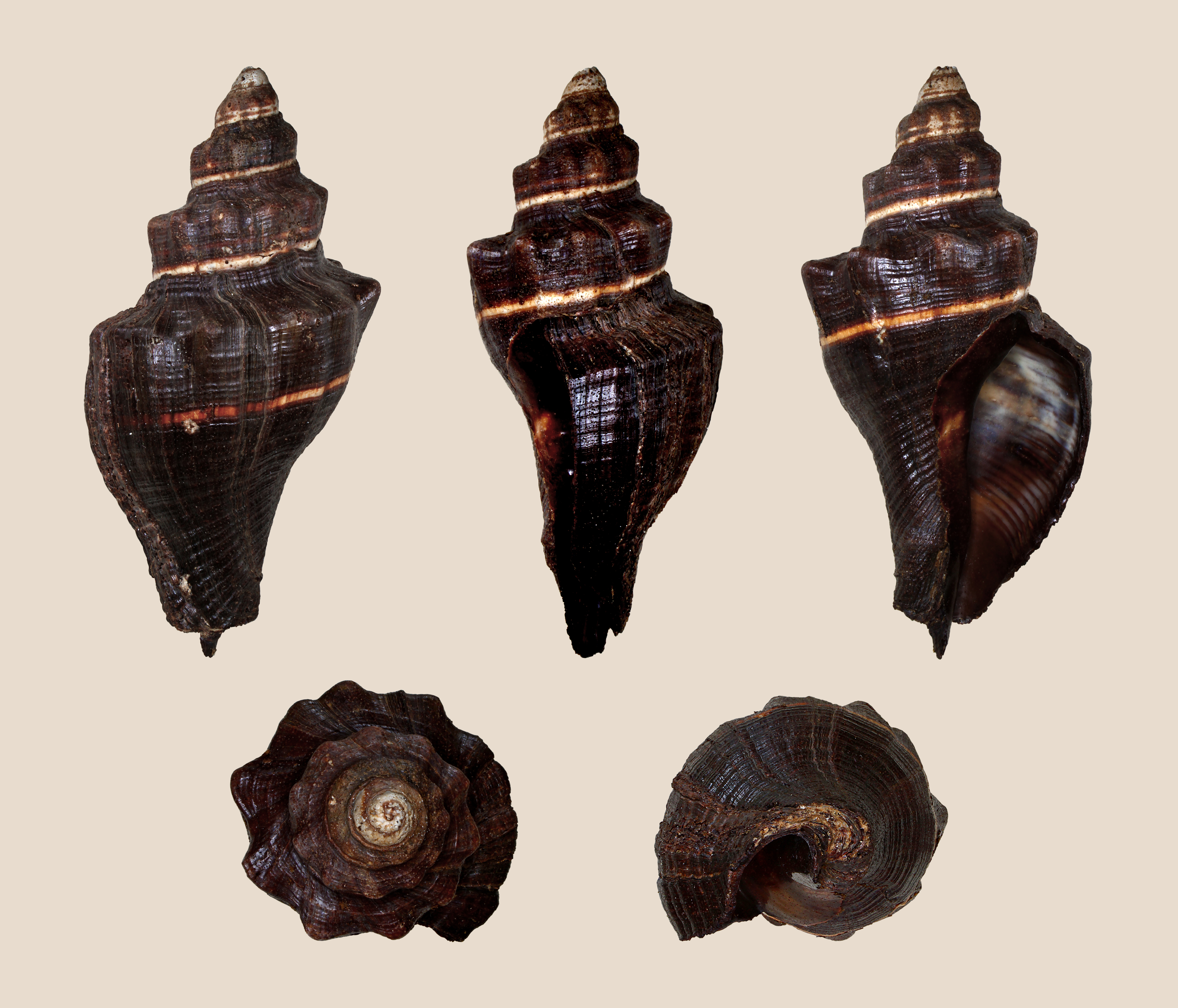 Giant Hairy Melongena; Length 14.0 cm; Originating from Nouadhibou, Mauretania; Shell of own collection, therefore not geocoded. Dorsal, lateral (right side), ventral, back, and front view.